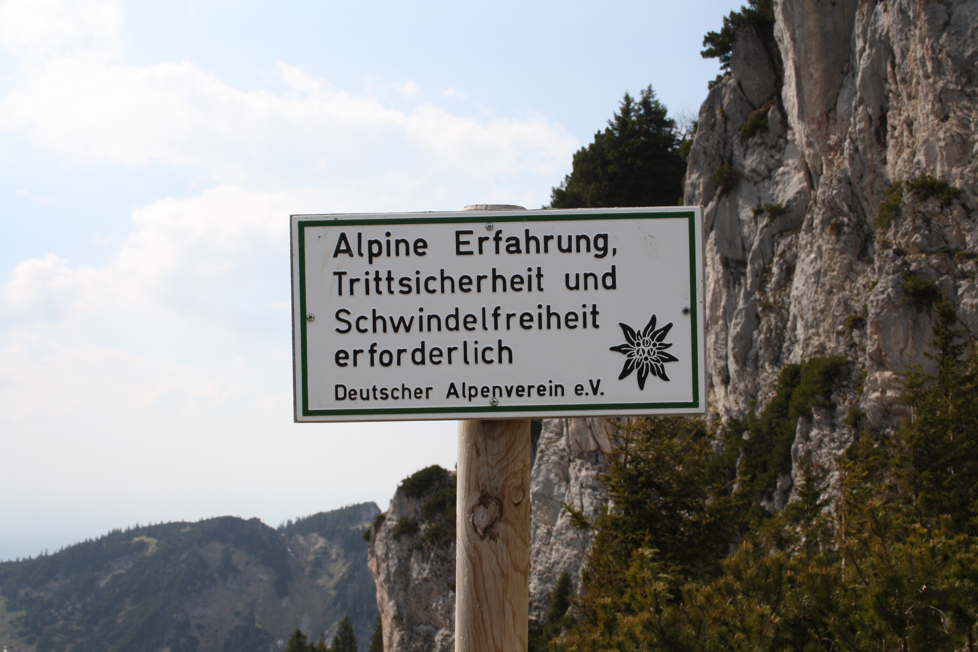 "Mountaineering experience, sure-footedness and head for heights required"